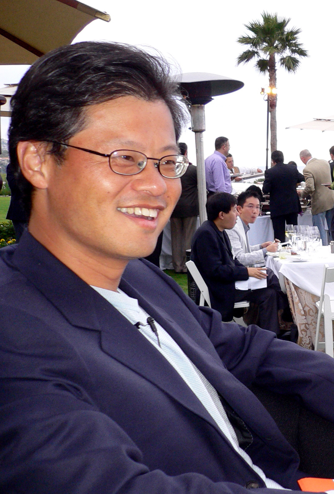 Jerry Yang, The Taiwanese American co-founder of Yahoo!, attending the Piper Jaffray's First Global Internet Summit on June 16, 2005.